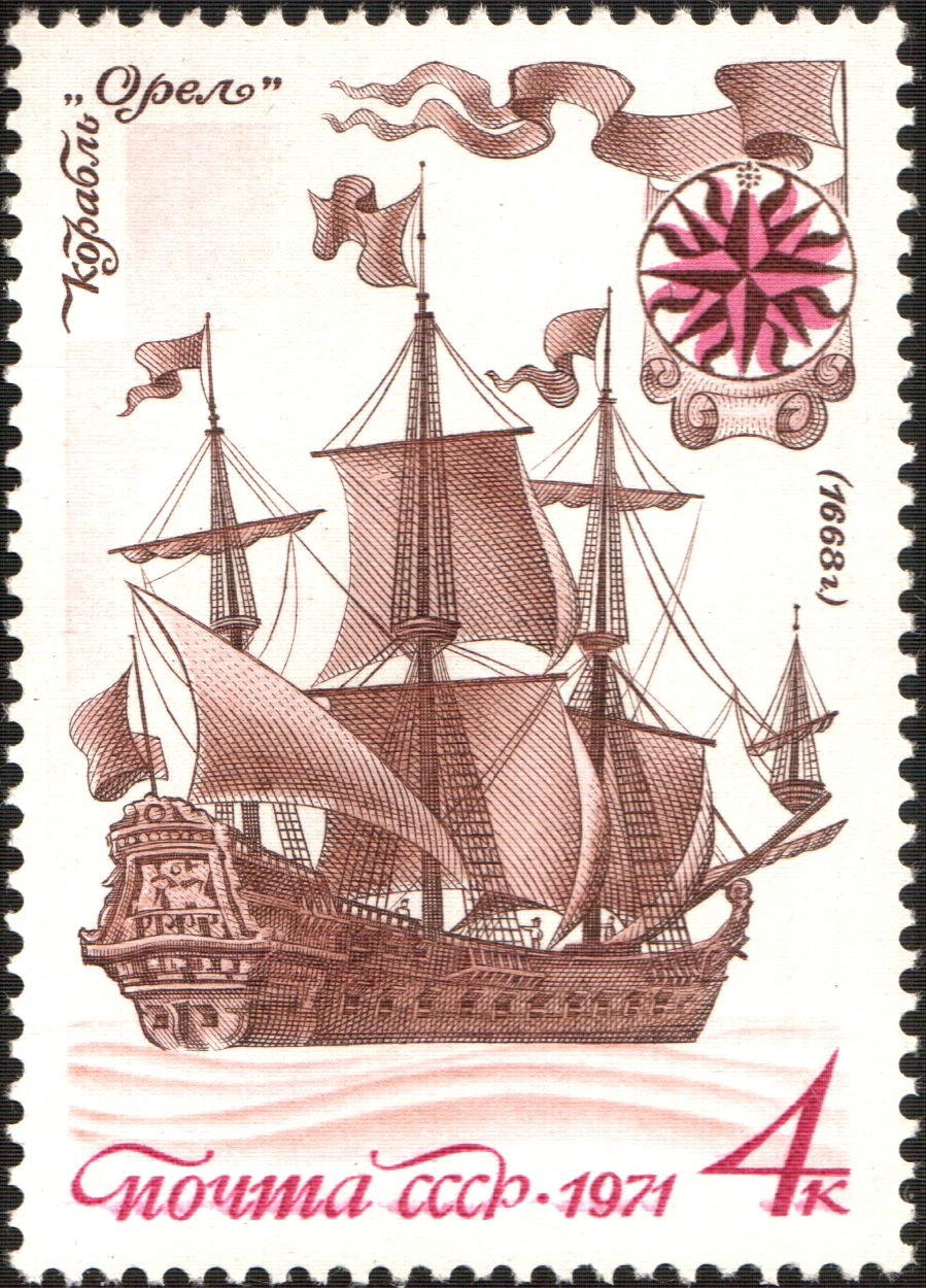 USSR stamp: Frigate Oryol, the First Russian-built Warship, 1668. Series: History of the Russian Navy. Sailing Ships